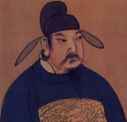 Emperor Zhongzong of Tang.